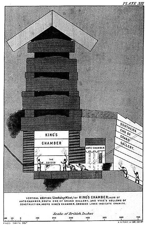 Plate XIII from Charles Piazzi Smyth: Our Inheritance in the Great Pyramid. 3rd, much enlarged edition. London 1877.